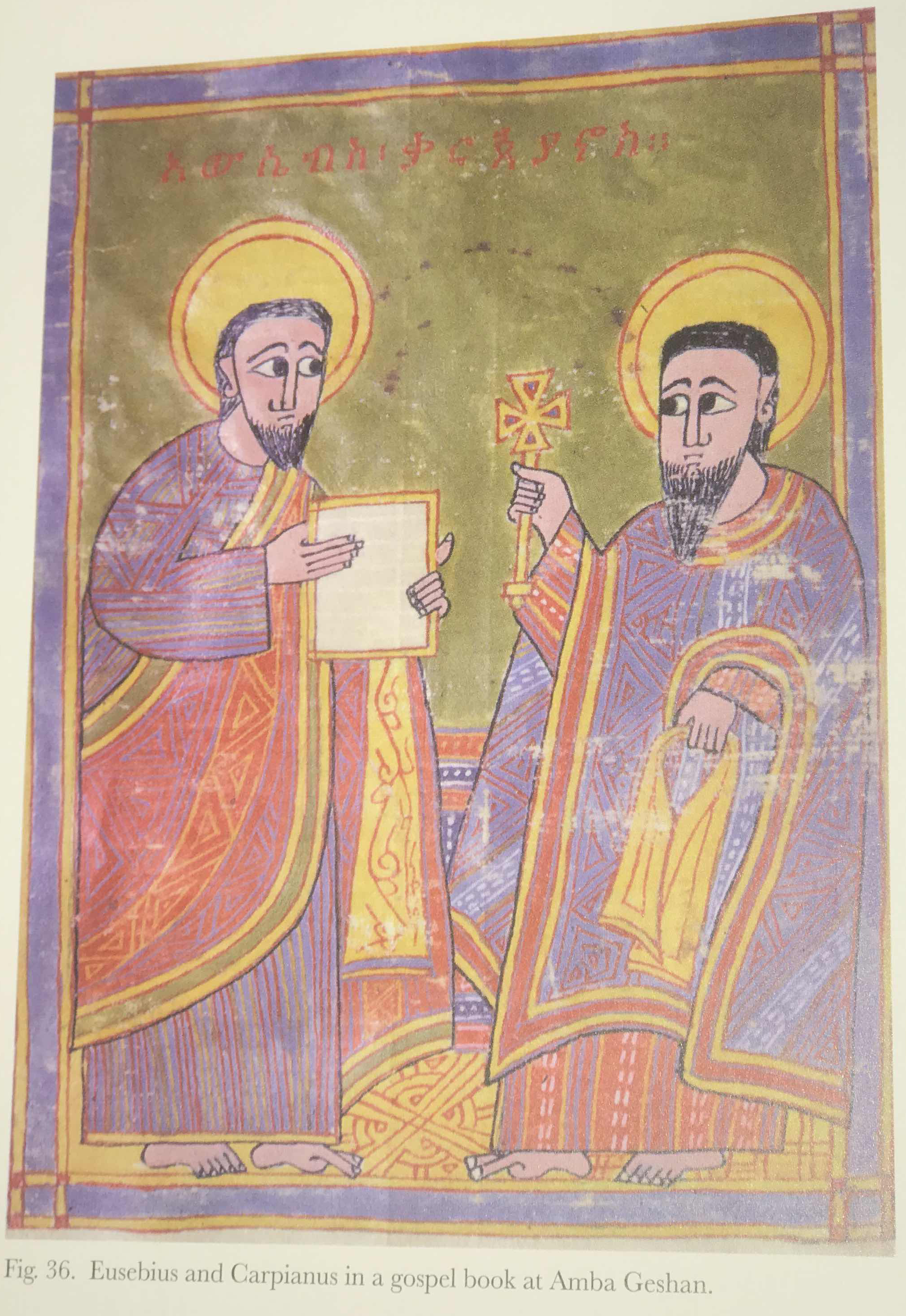 Eusebius of Caesarea depicted as a Saint with a Halo alongside Carpianus, whom he wrote a letter to concerning harmonization of the Gospels, which he holds in his hands while Carpianus is depicted as a priest or bishop with a hand-cross. The manuscript is Ethiopian and the text on top is Ge'ez. The top text lists their names so we can identify this is indeed Eusebius and Carpianus. Date of manuscript unknown.